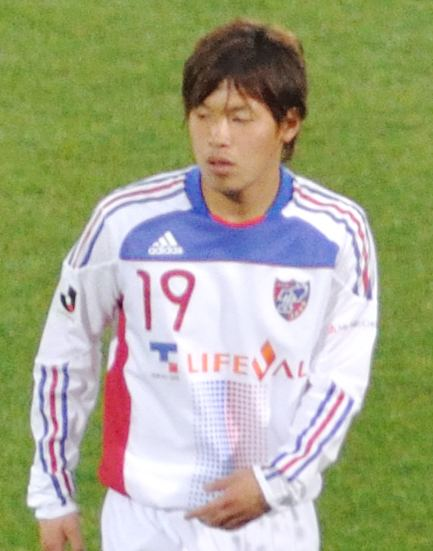 Yohei Otake cropped from Kawasaki Frontale vs FC Tokyo